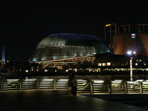 the esplanade by night